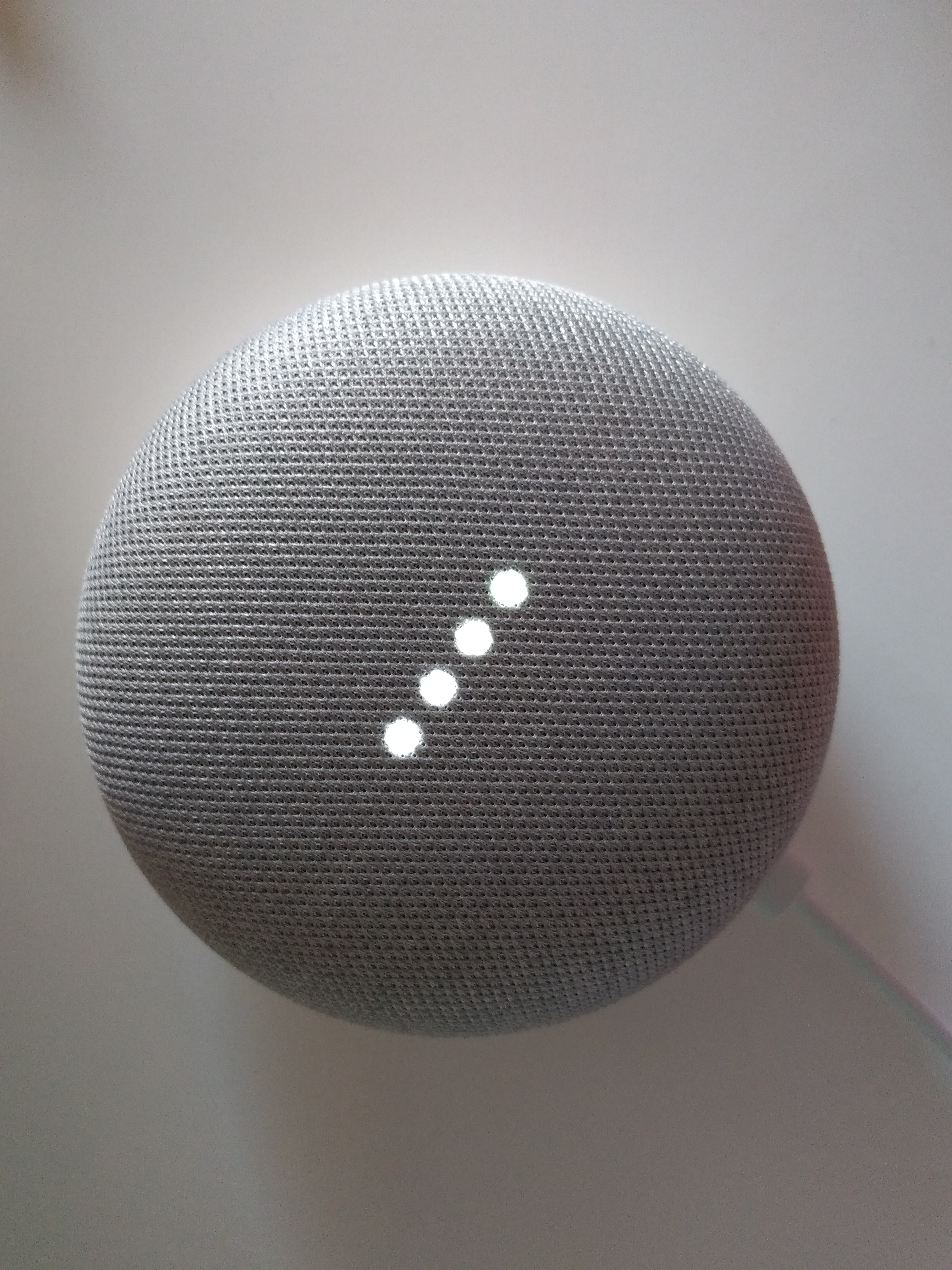 Google Home Mini - grey